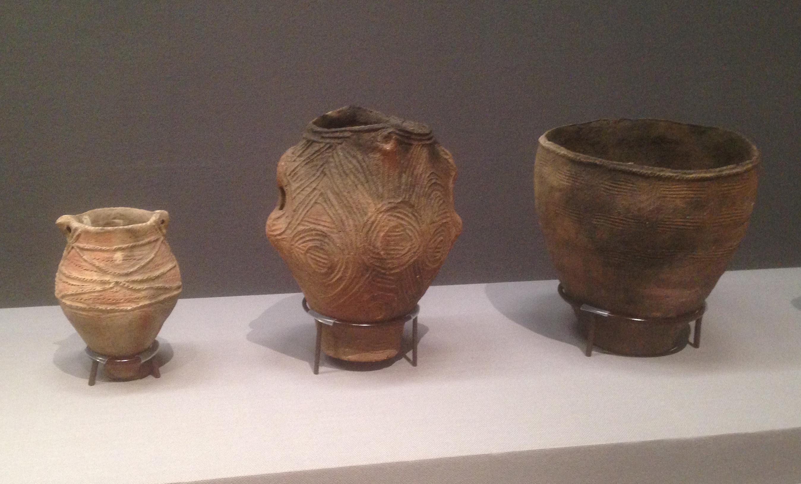 Deep bowls. Ebetsu-shi (right and left), Higashi Dori, Tomari-mura (center). Hokkaido. 3rd-1st c. BCE. Epi-Jomon. Tokyo National Museum. (From the note in the museum).